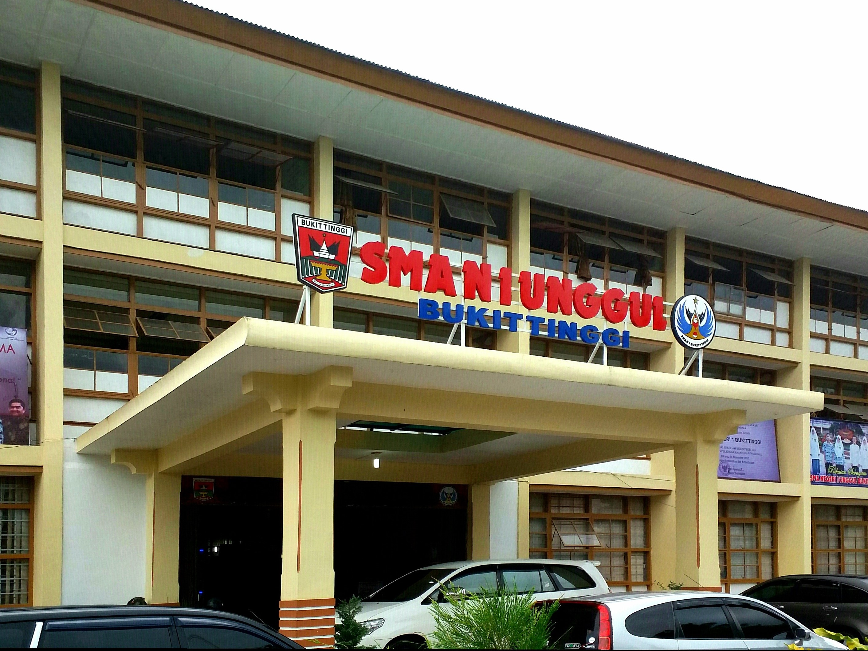 Main Building